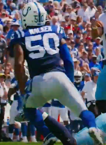 Anthony Walker 2019. Image from video Titans Mic'd Up vs. Colts (Week 2) | Sounds of the Game, ~ 00:17